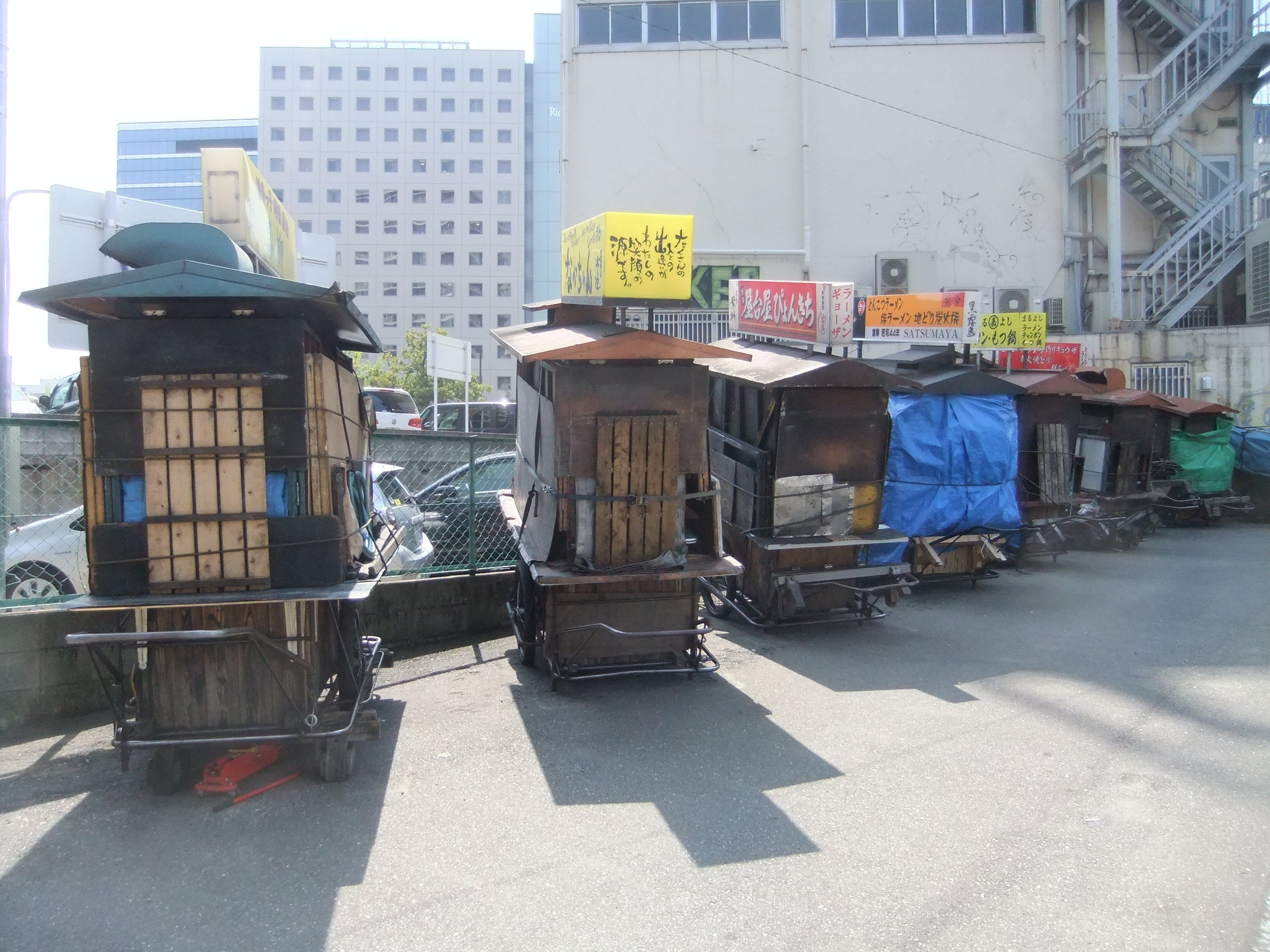 Yatai, food stall, towed and parked in a car park after business hours. photo taken in Chuoku, Fukuoka.